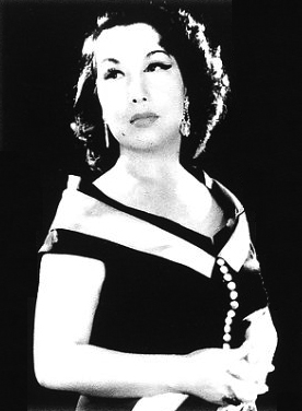 Noriko Awaya (1907–99)